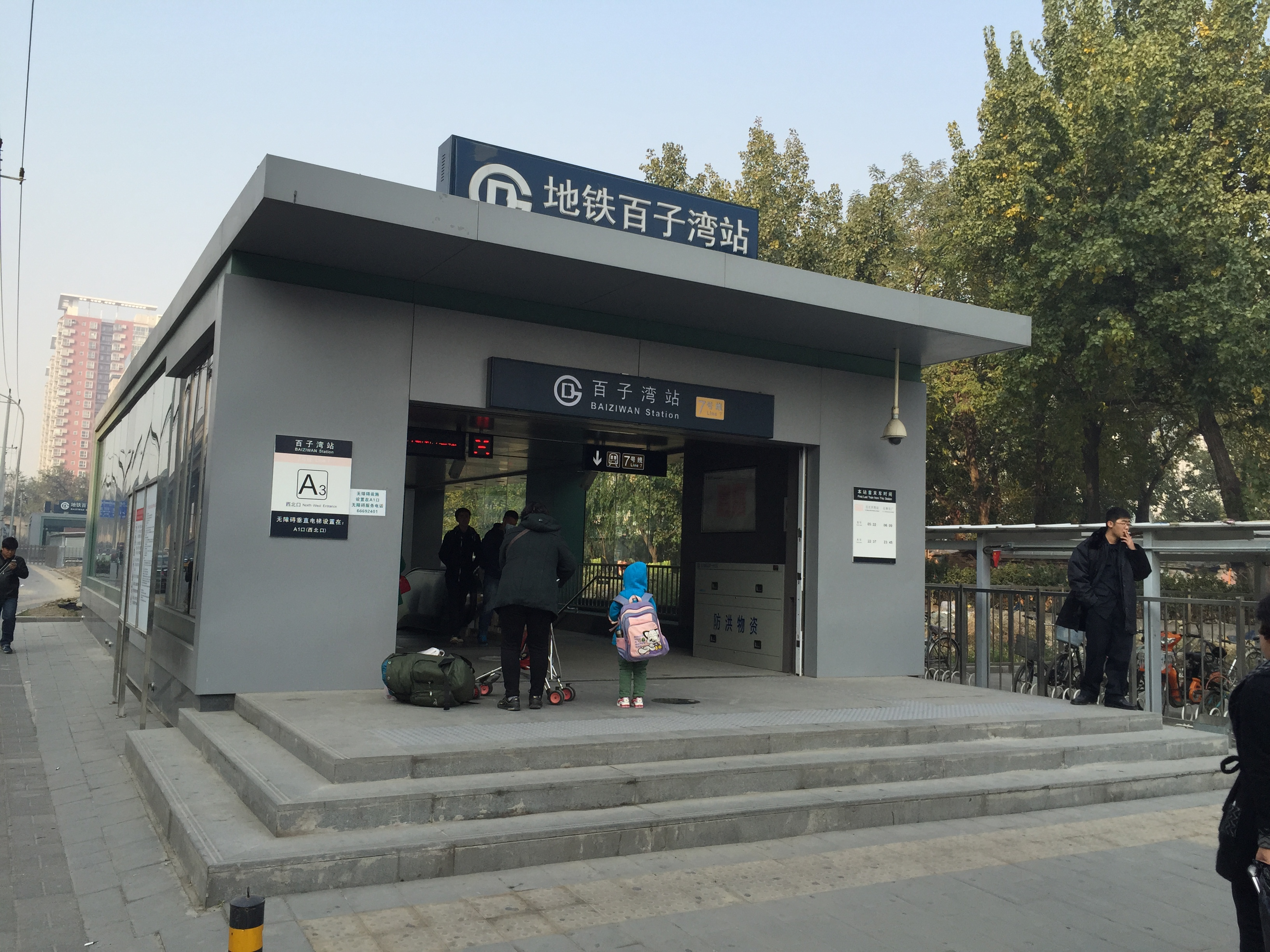 A station of Line 7 surrounded by residential areas.